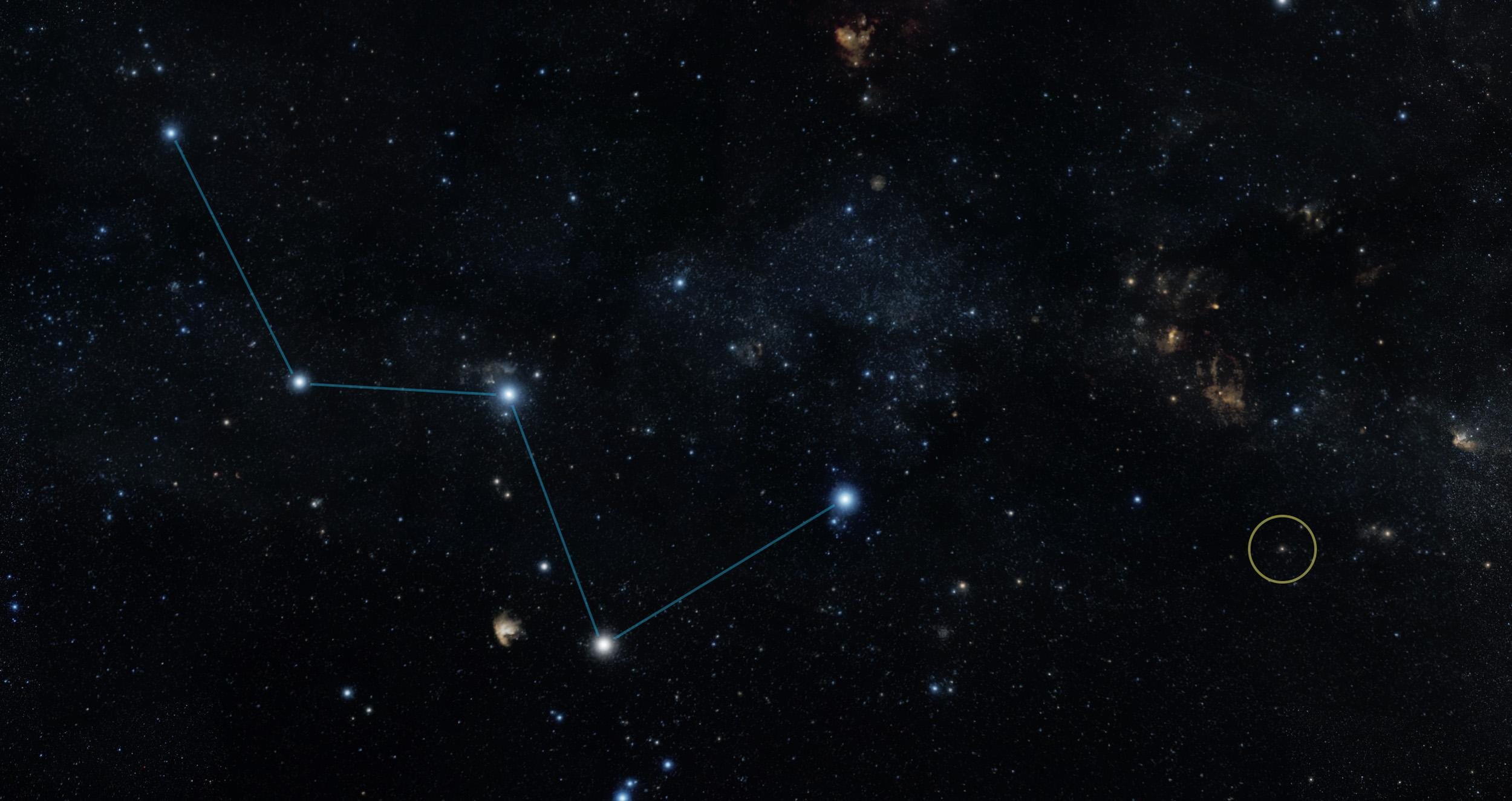 PIA19832: Location of Nearest Rocky Exoplanet Known This sky map shows the location of the star HD 219134 (circle), host to the nearest confirmed rocky planet found to date outside of our solar system. The star lies just off the "W" shape of the constellation Cassiopeia and can be seen with the naked eye in dark skies. It actually has multiple planets, none of which are habitable. NASA's Jet Propulsion Laboratory in Pasadena, California, manages the Spitzer Space Telescope mission for NASA's Science Mission Directorate, Washington. Science operations are conducted at the Spitzer Science Center at the California Institute of Technology in Pasadena. Science operations are conducted at the Spitzer Science Center at the California Institute of Technology in Pasadena. Spacecraft operations are based at Lockheed Martin Space Systems Company, Littleton, Colorado. Data are archived at the Infrared Science Archive housed at the Infrared Processing and Analysis Center at Caltech. Caltech manages JPL for NASA. For more information about Spitzer, visit and